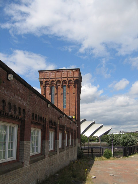 The Four Winds Building, Pacific Quay, Glasgow